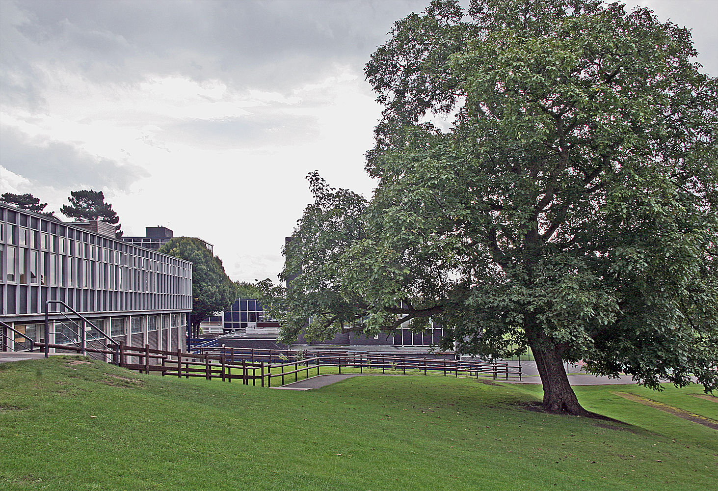 There were so many newer structures in the grounds of my old school (John Port grammar at Etwall) that I wondered whether the old spreading walnut tree had survived - it had, of course and looked as good as ever I remembered some fifty years ago......